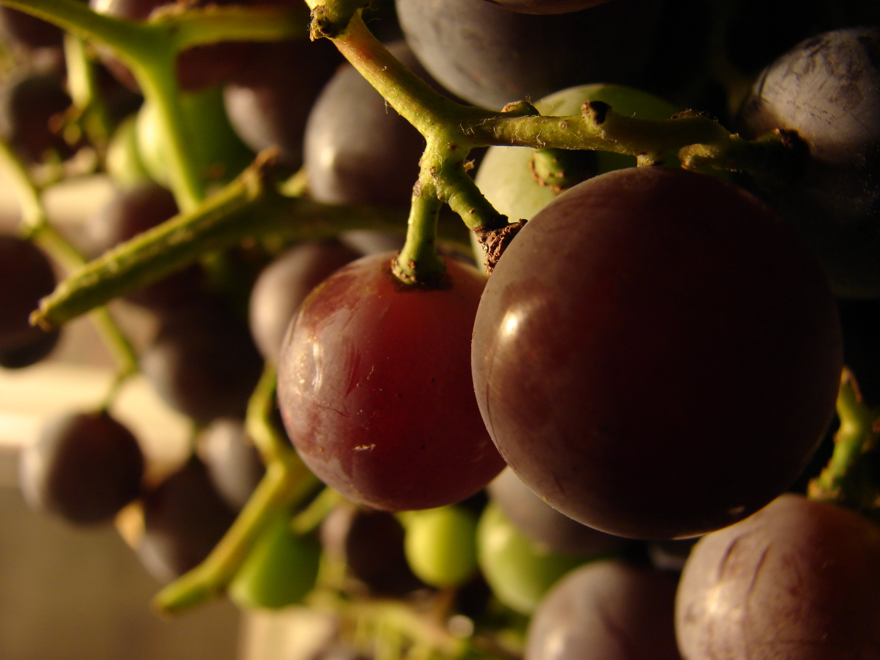 Picture taken by me in September, 2006.